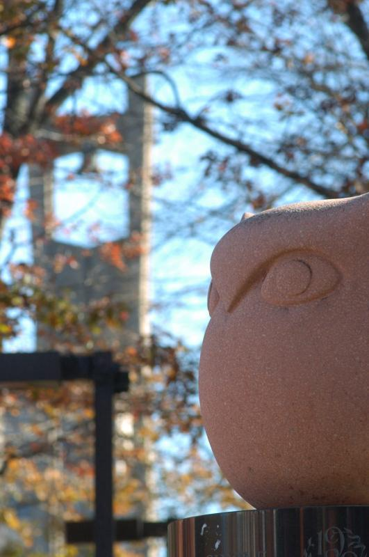 The Owl perched on the "Alumni Circle" with the Bell Tower looming behind.